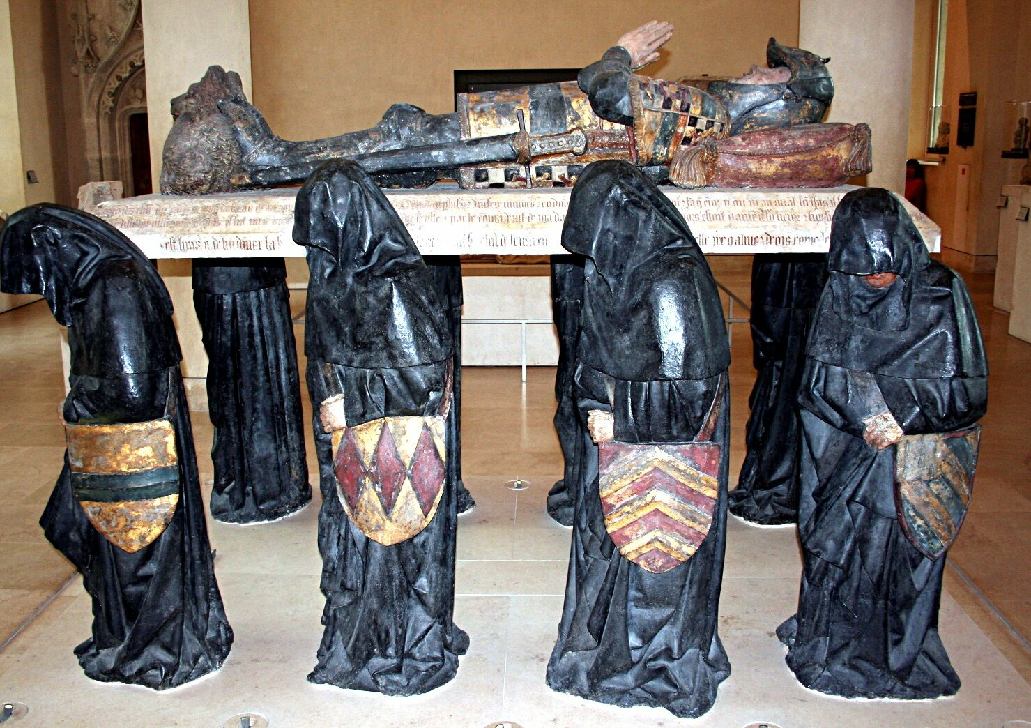 Photograph of the Tomb of Philippe Pot, Louvre Museum, Paris, France